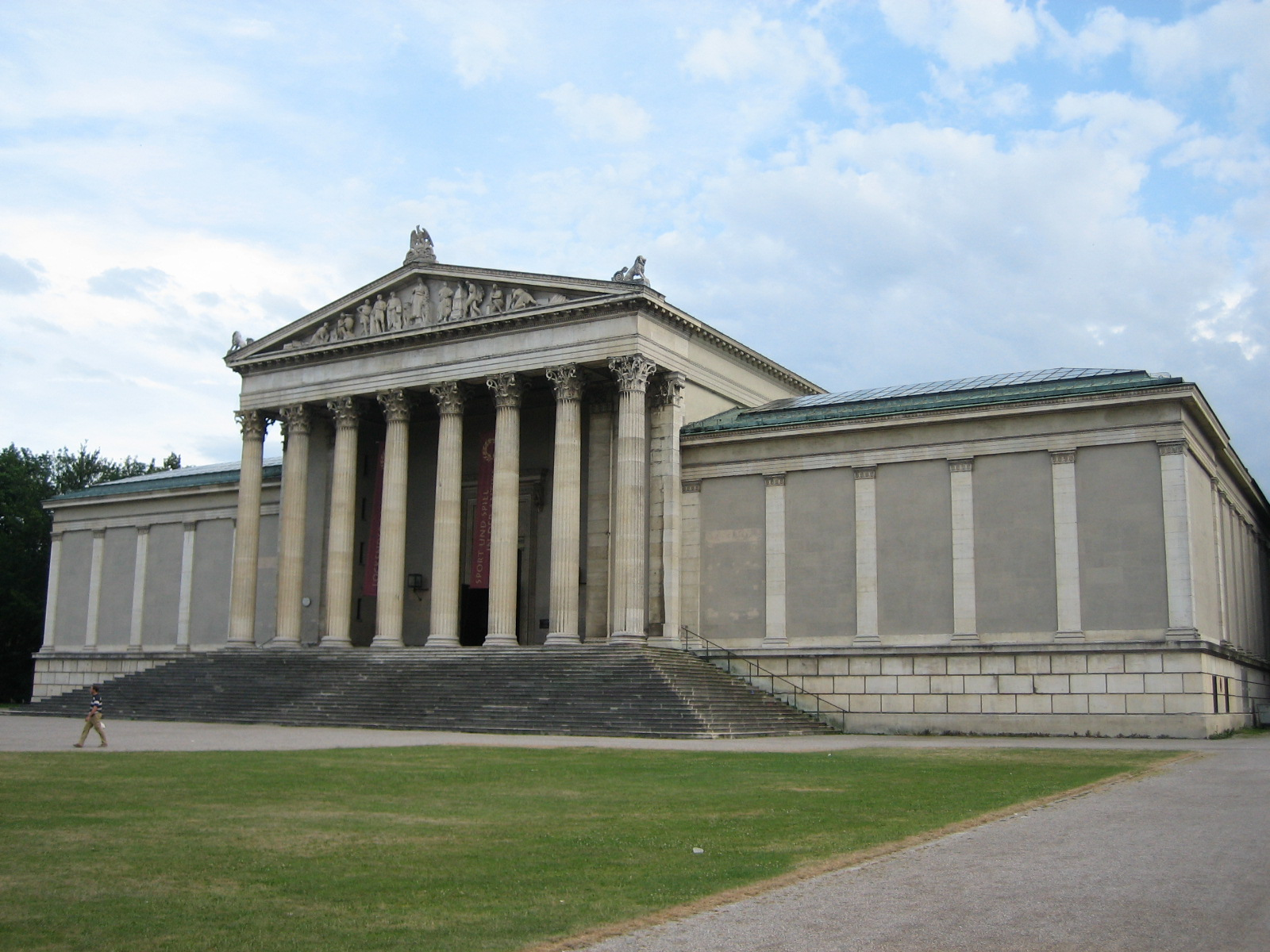 The neoclassical building for the Staatliche Antikensammlung on Königsplatz in Munich, Germany.